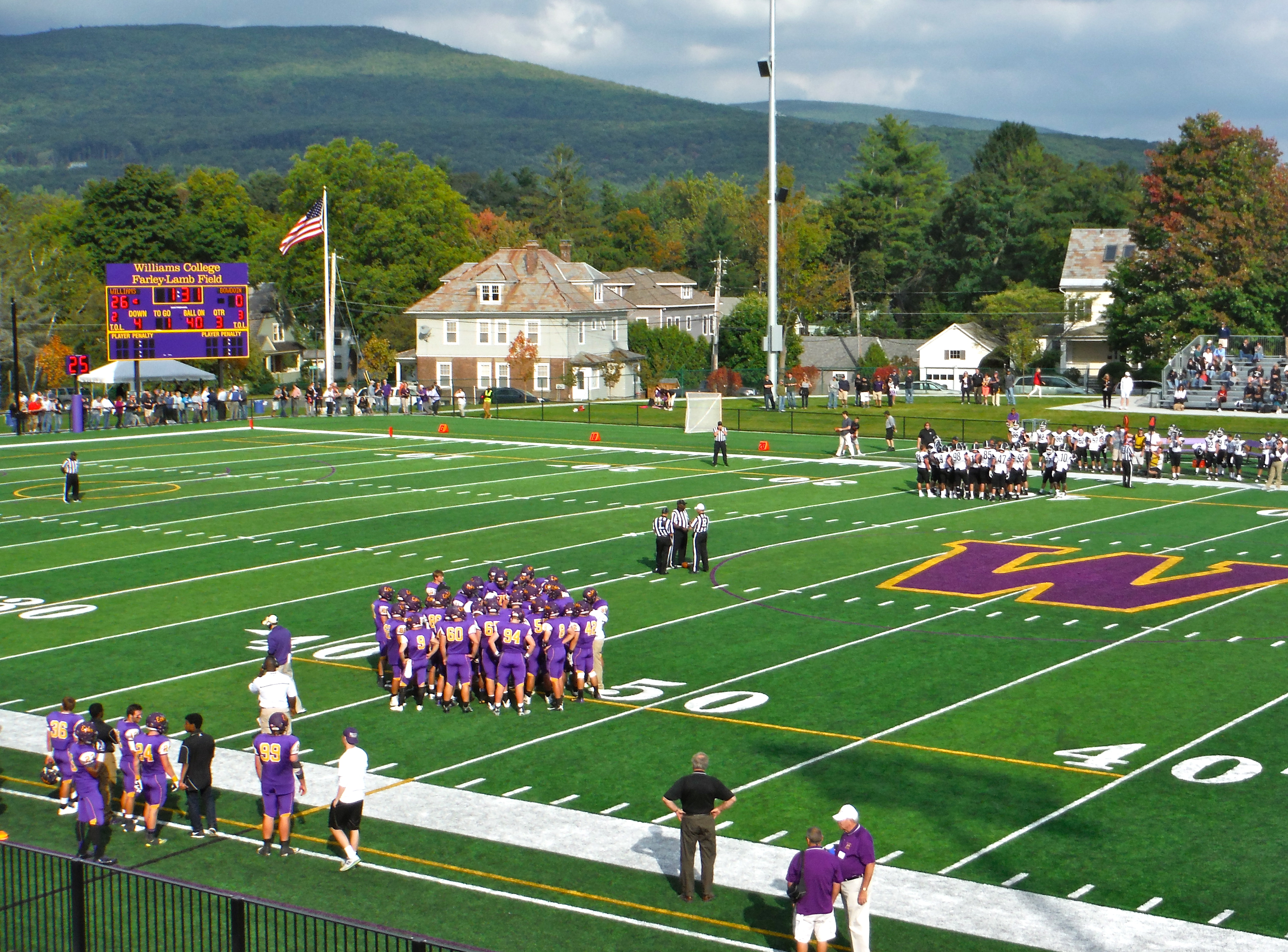 New artificial turf field at Weston Athletic Comlex